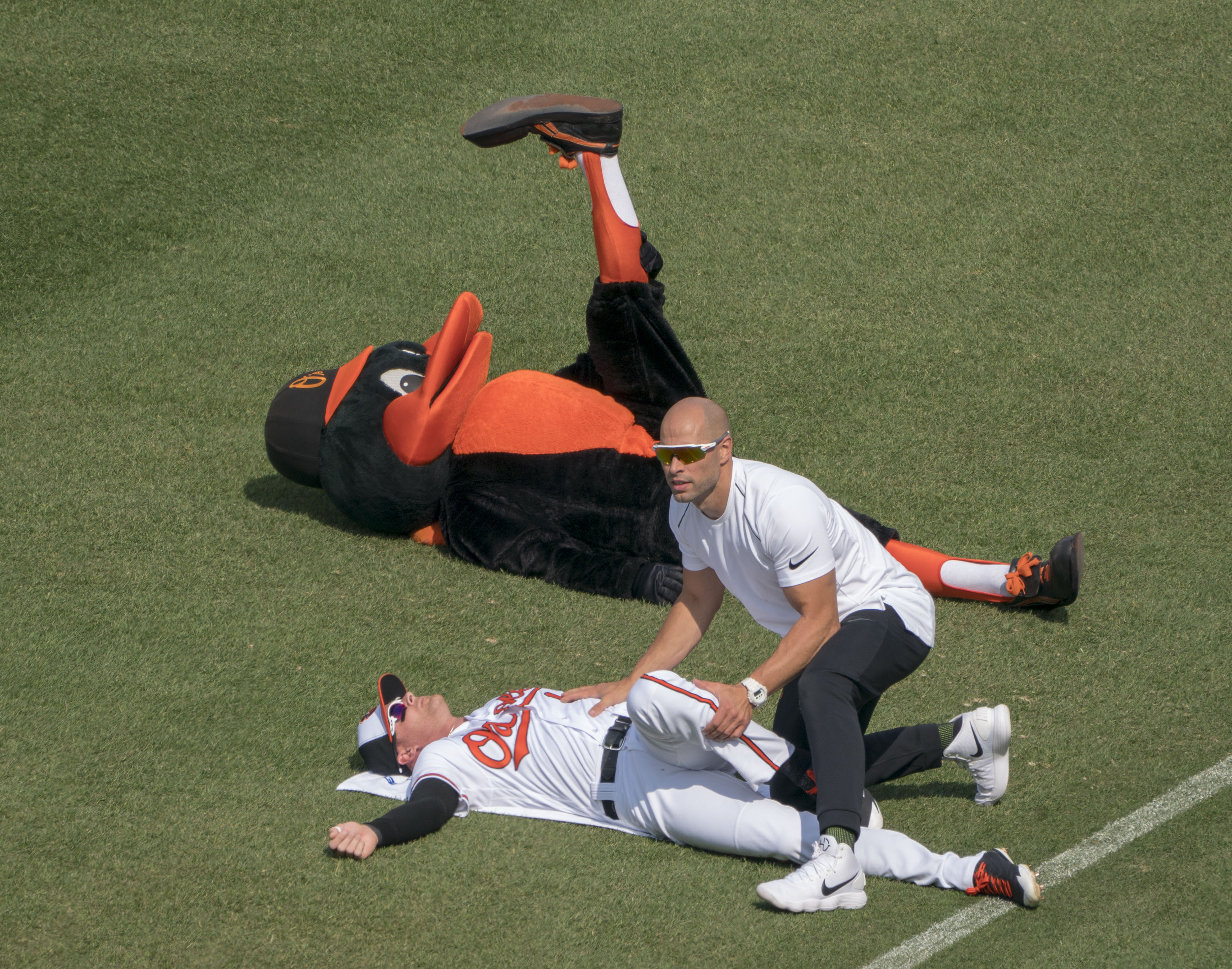 Twins at Orioles 3/29/18